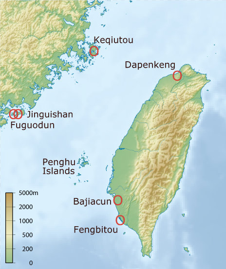 Topographic Map : Taiwan Neolithic and mainland previous sites.